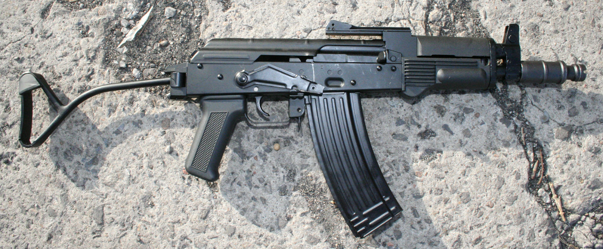 5,45-mm subkarabinek wz.1989 Onyks, short version of kb wz. 1988 Tantal